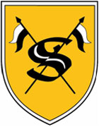 Internal coat of arms Ausbildungszentrum Heeresaufklärungstruppe (StKp AusbZ HAufklTrp) of the Bundeswehr (Armed Forces of the Federal Republic of Germany). → Remarks on naming and categorization scheme